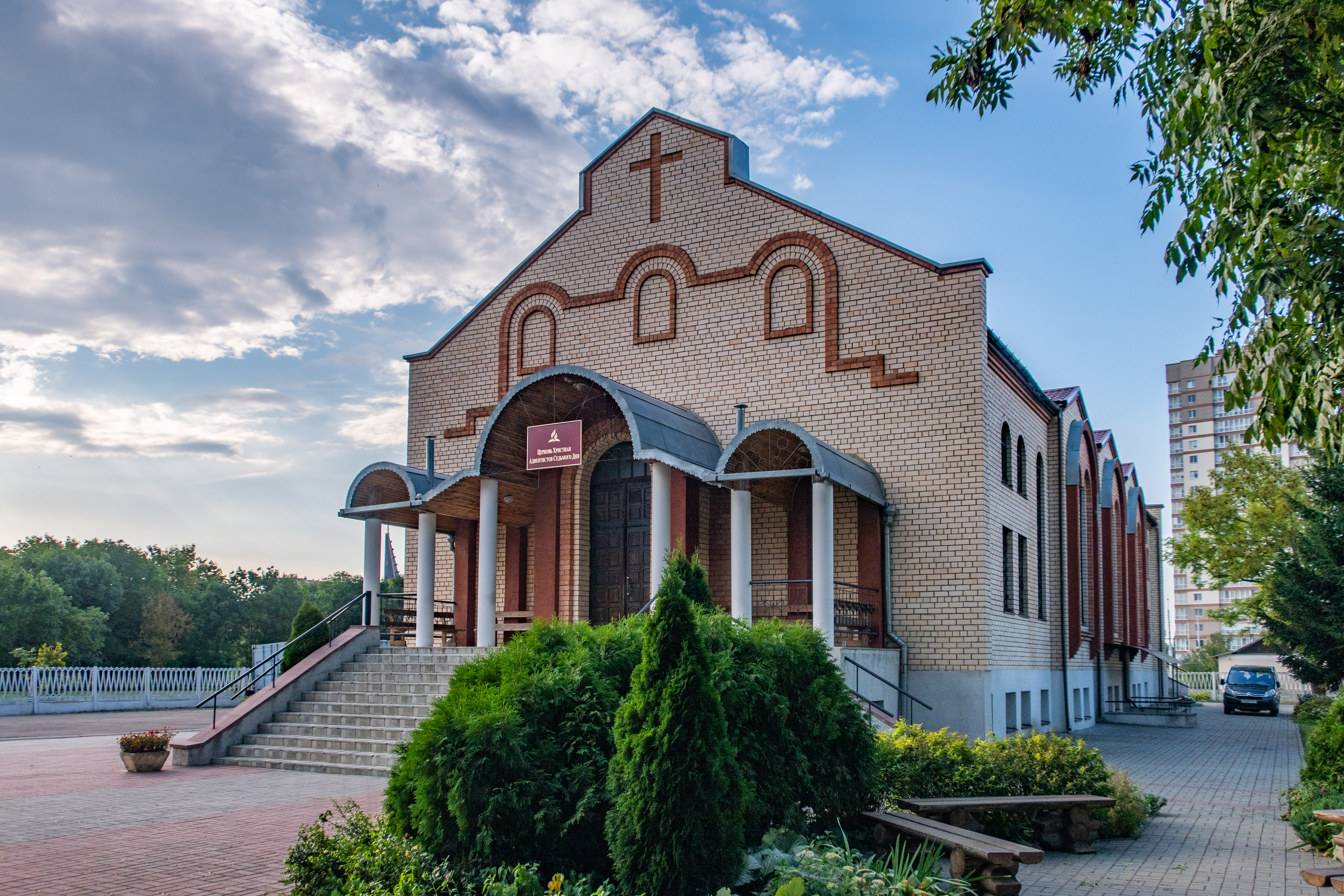 Seventh-day Adventist church. Vasniacova street. Minsk, Belarus